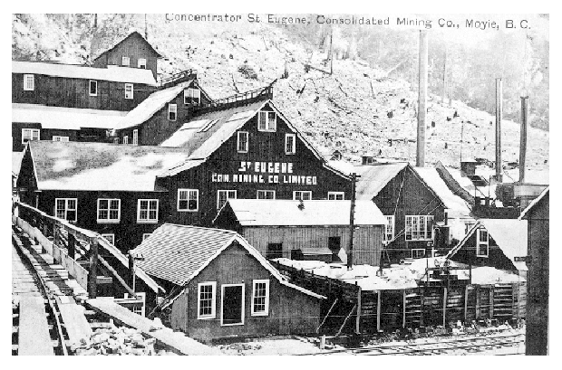 Photographer:Unknown Photo taken:1908 Source:BC Archives #B-00649[1]